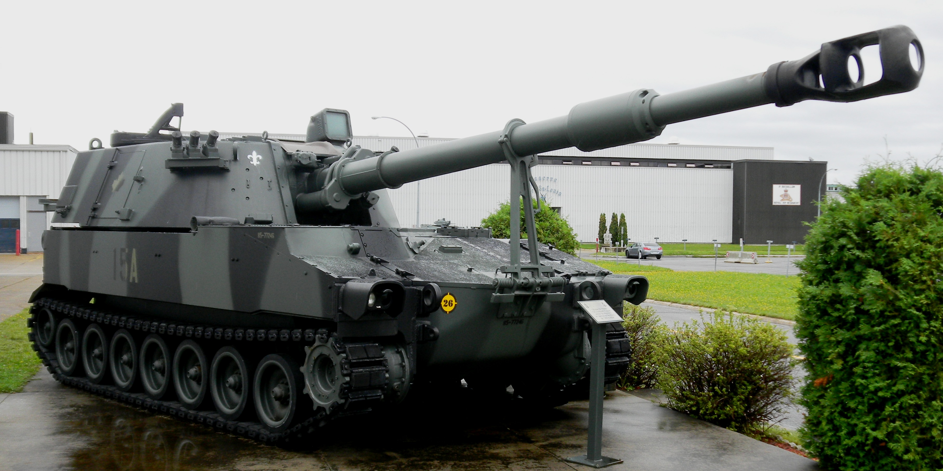 M109A4B 155-mm SP Howitzer, CFB Valcartier, Quebec. The M109 is an American-made self-propelled 155-mm Howitzer, first introduced in the early 1960s. 76 A4B+ were in use by the Canadian Forces from 1967 until they were phased out in 2005. In the 1980s of of these SP Howitzers were modernized to the M109A4B+ SPH standard. 24 of the M109s served with 4 Canadian Mechanized Brigade Group (4 CMBG) in Germany until 1992, with the remainder distributed to units in Canada, including CFB Shilo where more extensive and varied live fire exercises could be carried out than those conducted by 1 RCHA at Grafenwoehr and Munster in Germany